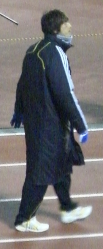 Seiichiro Maki is japanese football player.